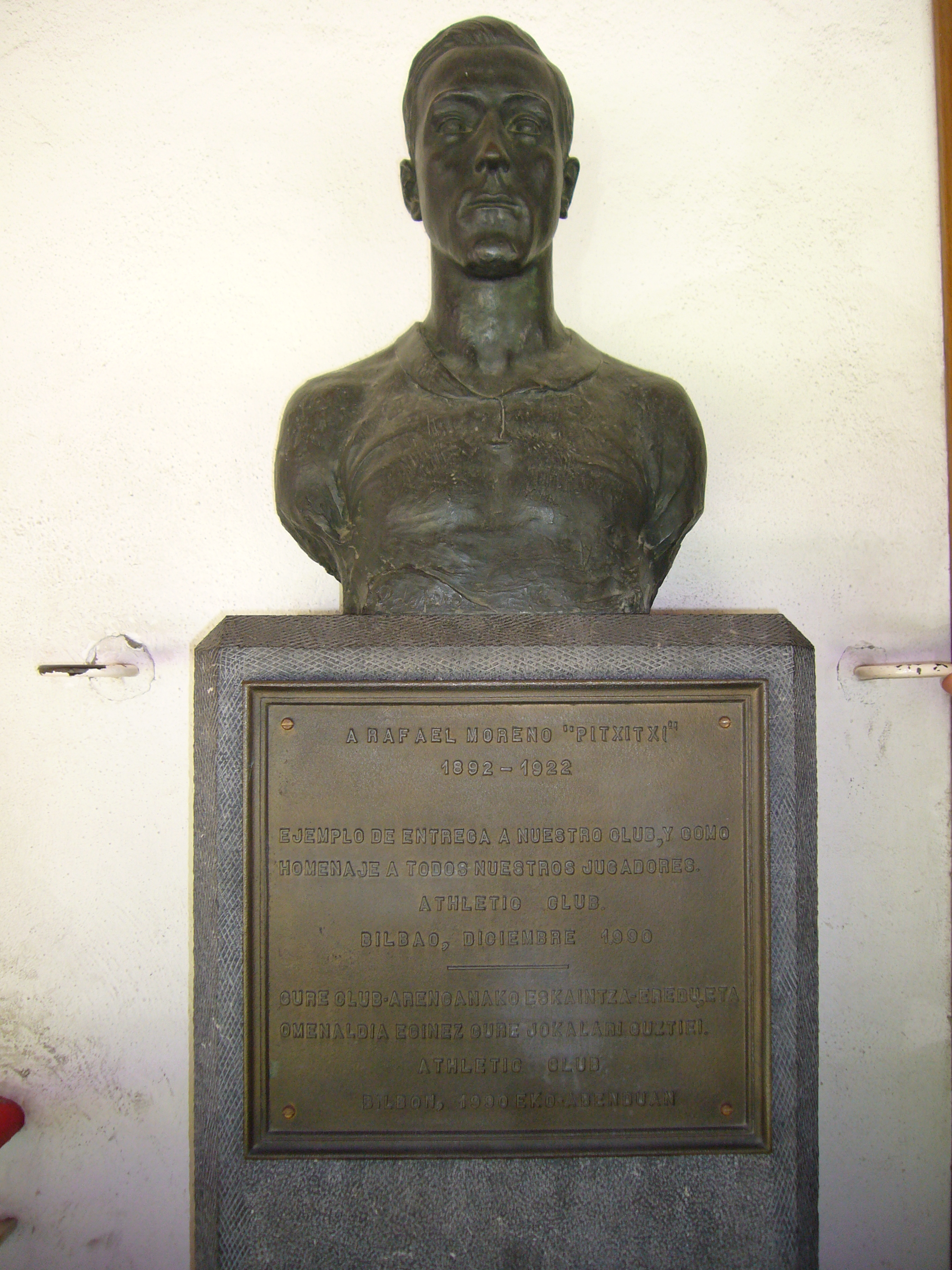 Bust of Rafael Moreno "scorer" in the box at the San Mamés Stadium.